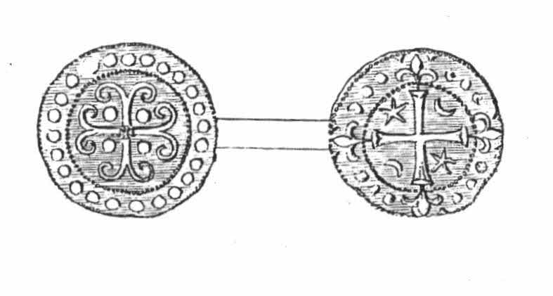 The "Eltham Coin", subject of a book by numismatist Charles Clarke, later proved to be a Peny-Yard Penny, from Henry III's reign. More information see: Crowther-Beynon, V. B. (1929). "Some Notes on 'Peny-Yard Pence'". British Numismatic Journal